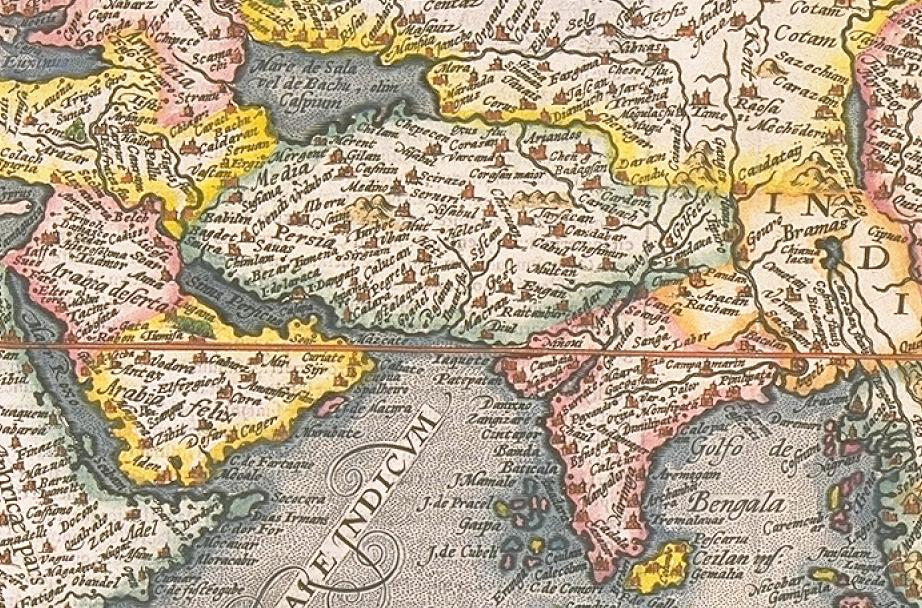 Maker: Quad Matthaus Affiliation: Cologne school of mapmakers Date: 1602 Size: 29.5 x 21cm Colored Location: Hong Kong University Library of Science and Technology